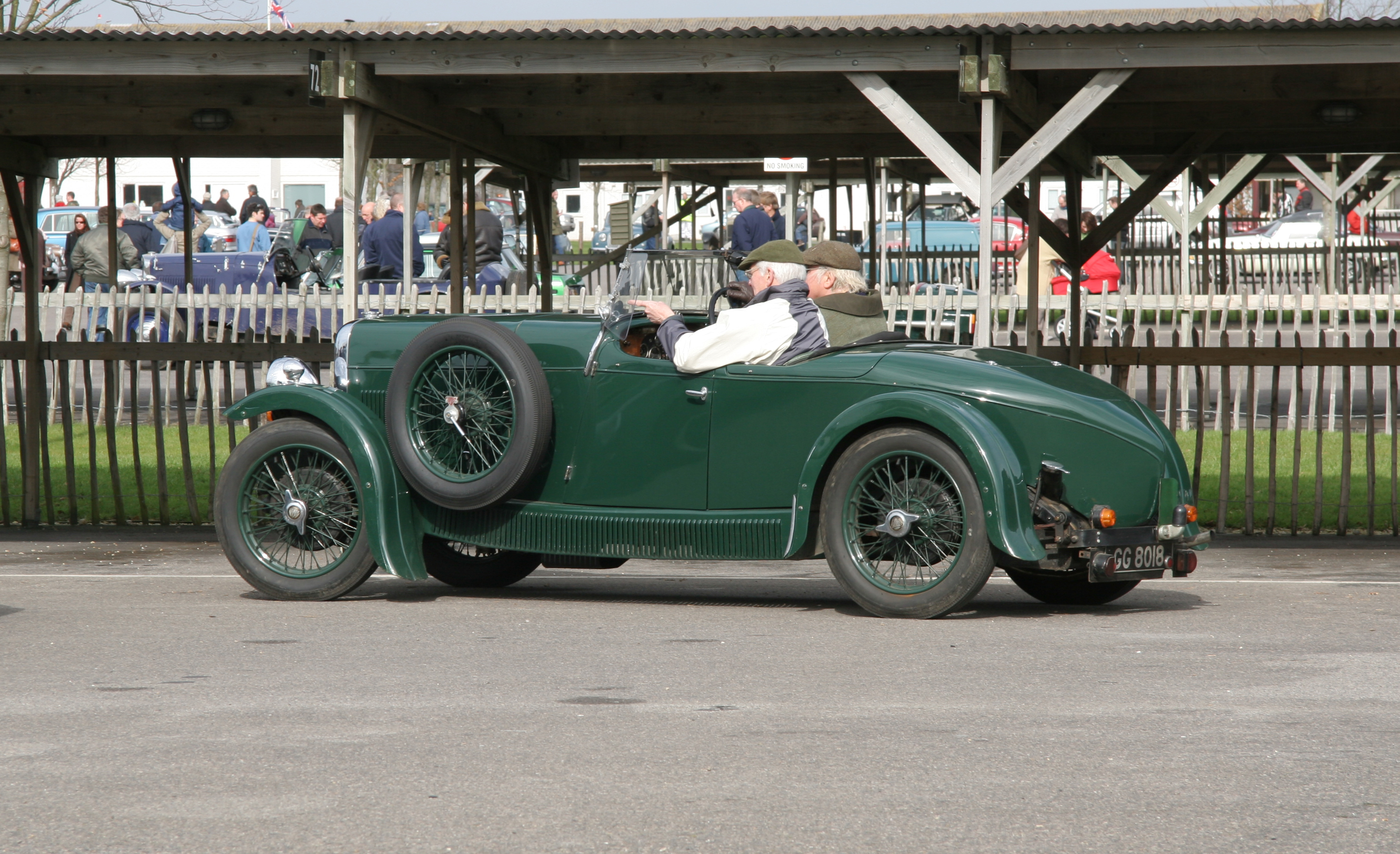 Alvis 12/60 (DVLA) first registered 8 September 1932, 1645cc